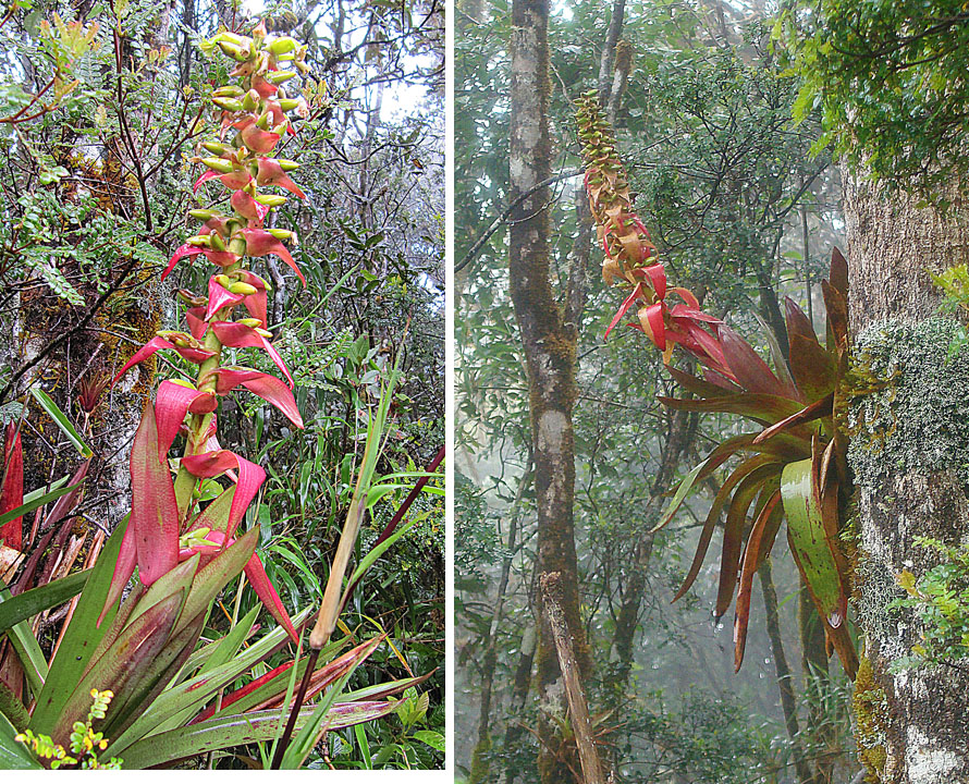 A mainly Costa Rican epiphyte, photo from Los Quetzales park. In context at